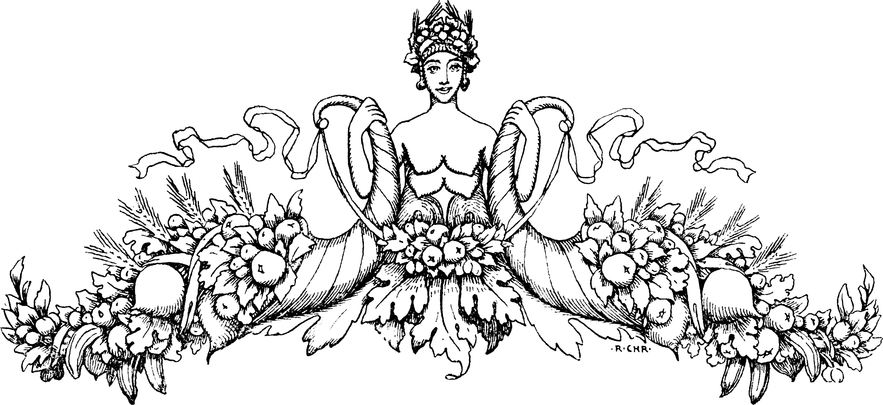 Fertilizer as a superfluity horns.